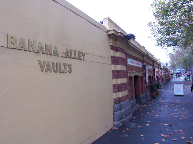 A picture of Banana Alley from 14th May 2006. A picture of Banana Alley from 14th May 2006.